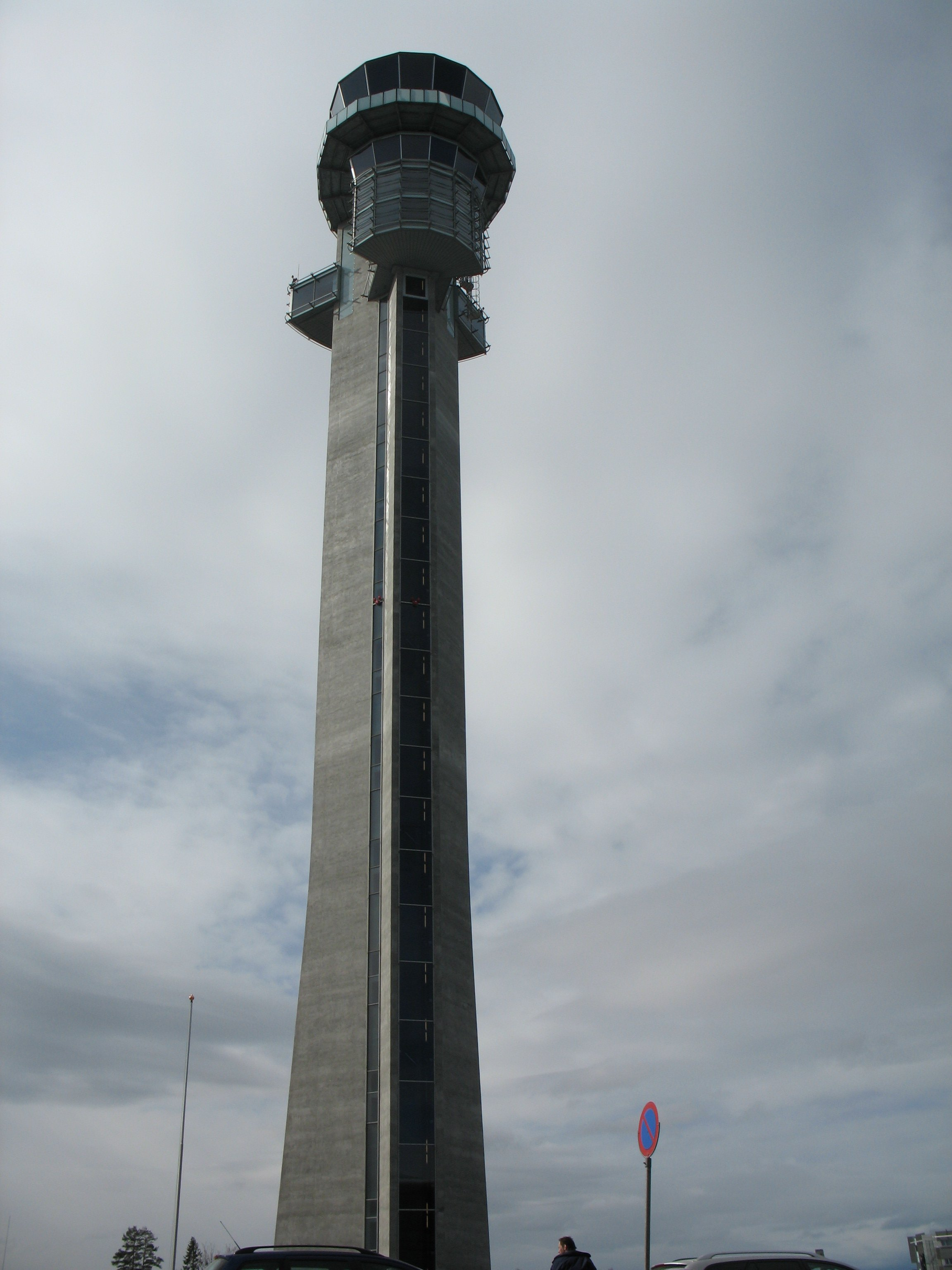 Oslo Airport, the control tower